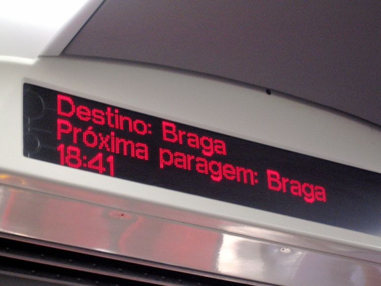 Info panel of Portuguese train type 3400.